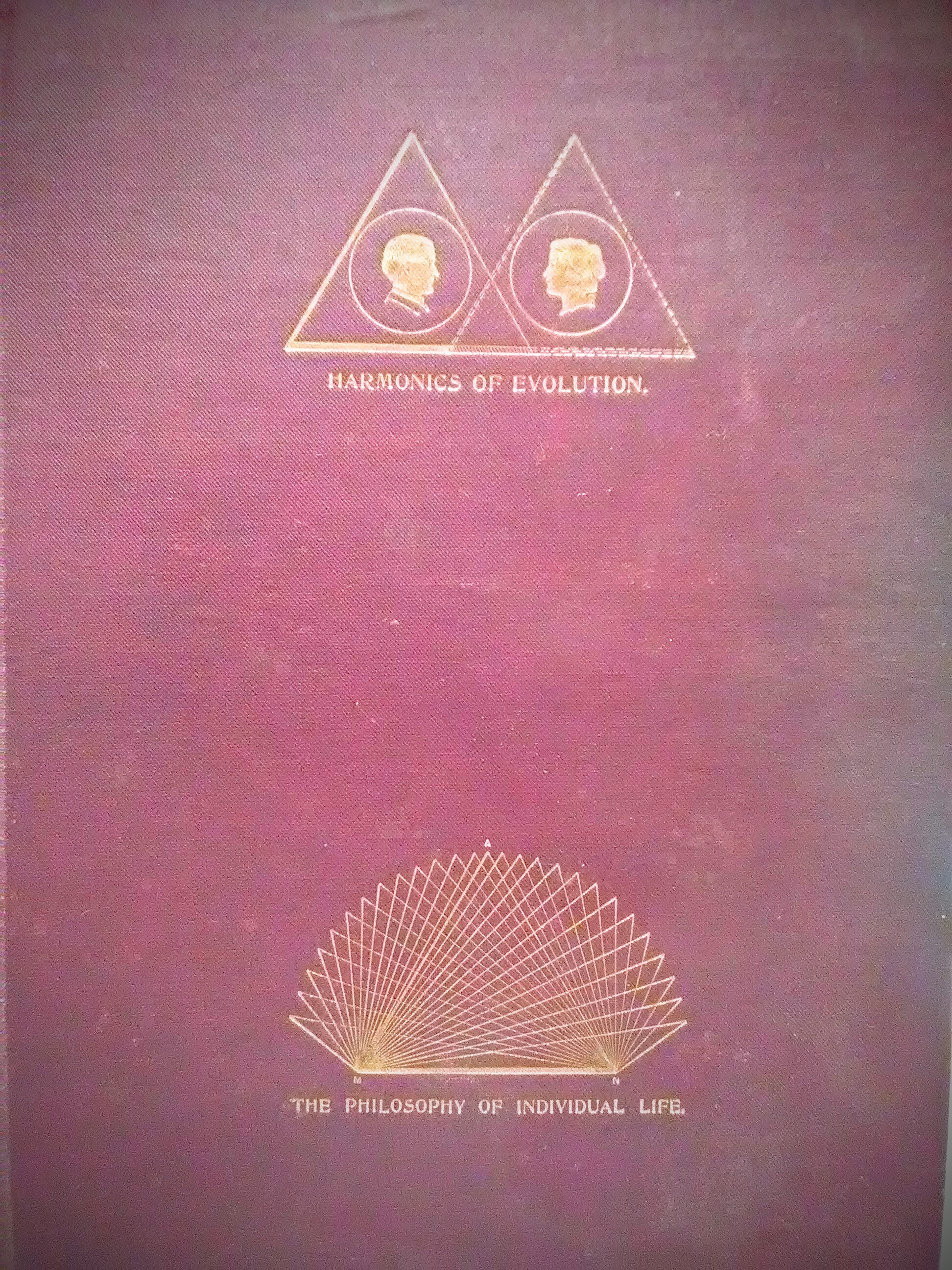 The cover of original edition.